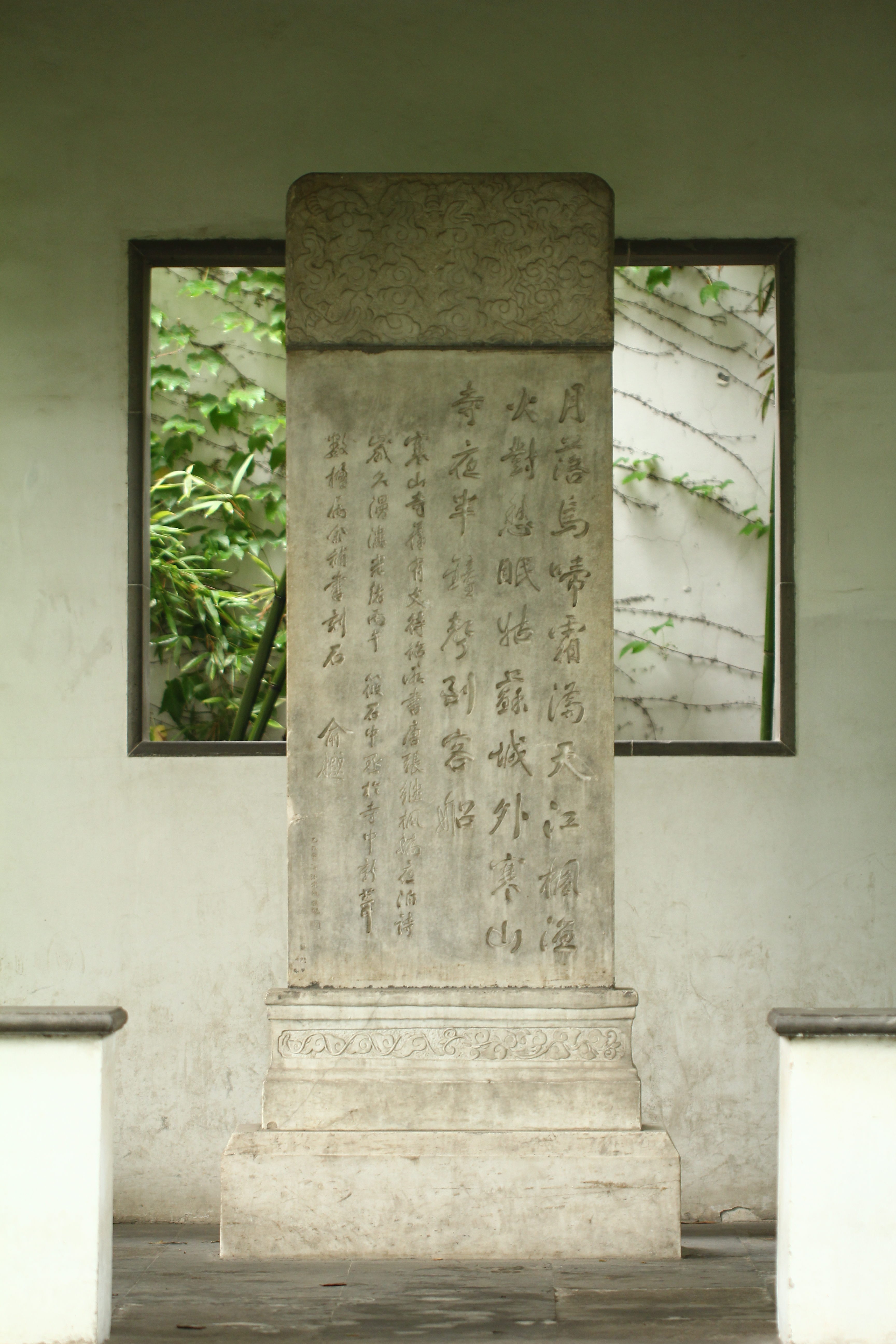 Anchoring at Night at the Maple Bridge Poem Tablet